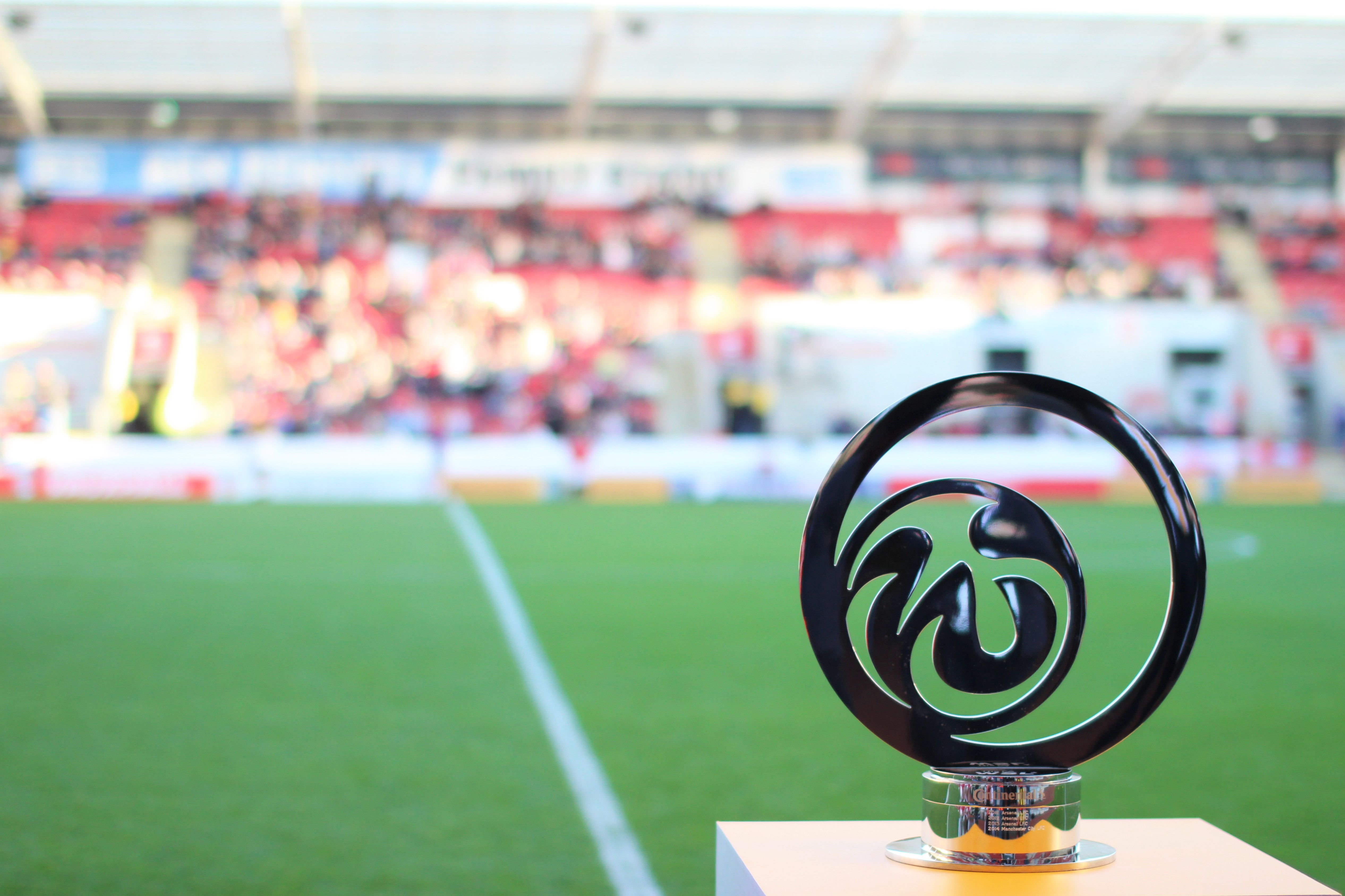 The FA WSL Continental Cup trophy before the game between Arsenal Ladies and Notts County.